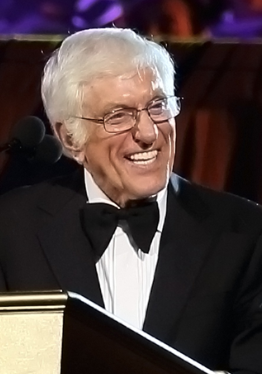 Dick Van Dyke at the Disneyland Candlelight Processional in December 2012. →This file has been extracted from another file: Dick van Dyke December 2012.jpg.